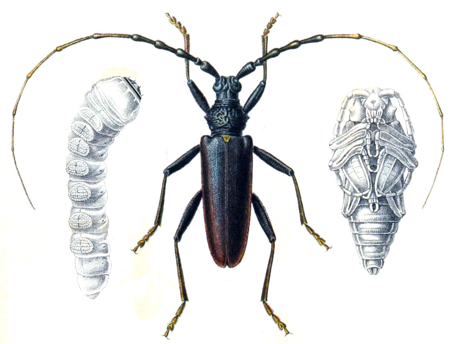 Description Die Käfer des Deutschen Reiches (FAUNA GERMANICA), IV. Band, Farbendrucktafel Date1912SourceK.G. Lutz' Verlag, StuttgartAuthorEdmund Reitter, K.G. LutzPermission (Reusing this file) Author died more than 70 years ago - public domain Other versionsDerivative works of this file: Cerambyx cerdo tagged res.png →This file has been extracted from another file: Reitter-1912 bugs3135.jpg. This work is in the public domain in its country of origin and other countries and areas where the copyright term is the author's life plus 70 years or less. You must also include a United States public domain tag to indicate why this work is in the public domain in the United States. Note that a few countries have copyright terms longer than 70 years: Mexico has 100 years, Jamaica has 95 years, Colombia has 80 years, and Guatemala and Samoa have 75 years. This image may not be in the public domain in these countries, which moreover do not implement the rule of the shorter term. Côte d'Ivoire has a general copyright term of 99 years and Honduras has 75 years, but they do implement the rule of the shorter term. Copyright may extend on works created by French who died for France in World War II (more information), Russians who served in the Eastern Front of World War II (known as the Great Patriotic War in Russia) and posthumously rehabilitated victims of Soviet repressions (more information). This file has been identified as being free of known restrictions under copyright law, including all related and neighboring rights. Die Käfer des Deutschen Reiches (FAUNA GERMANICA), IV. Band, Farbendrucktafel